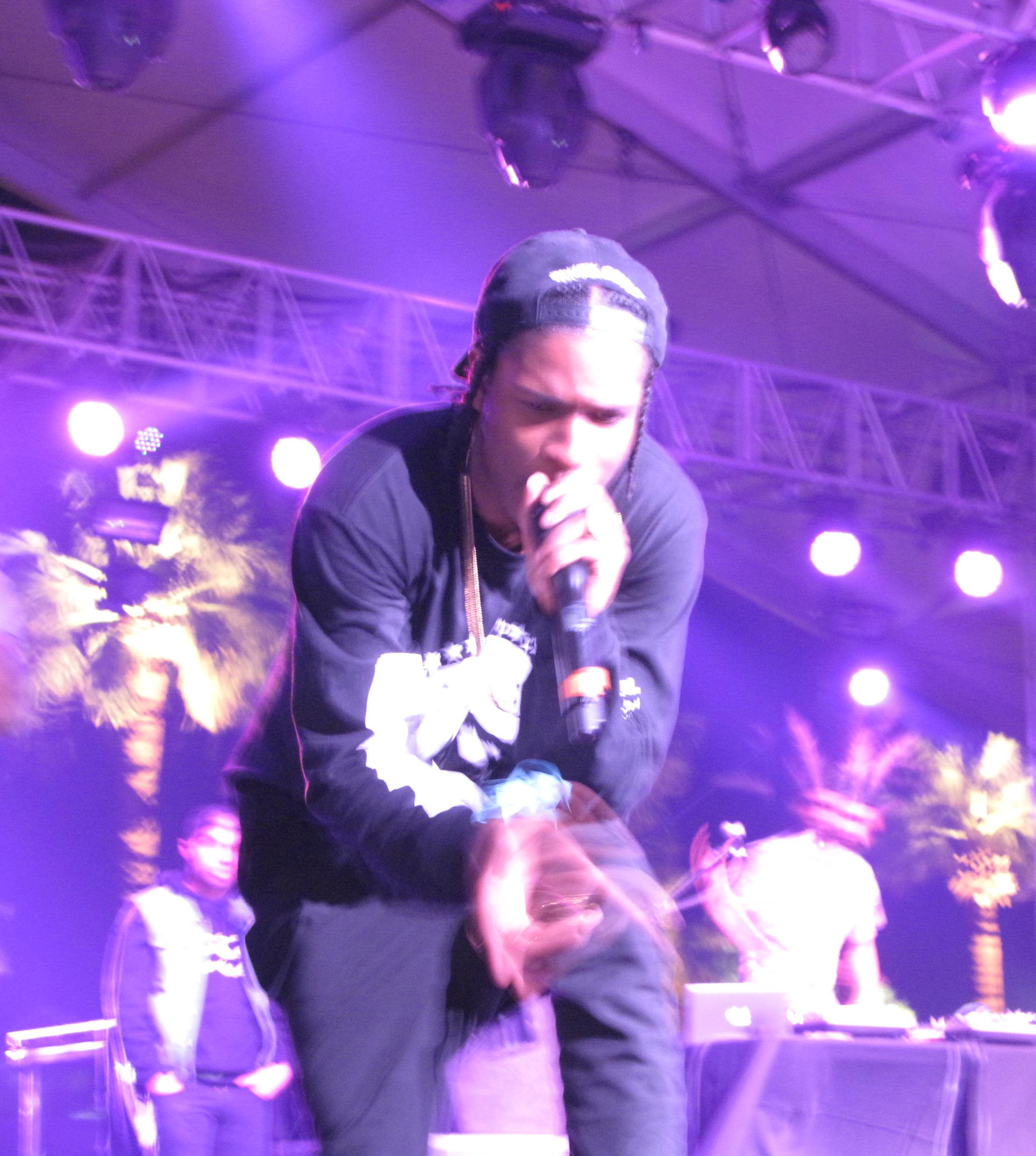 ASAP Rocky performing on Drake's Club Paradise Tour, at Coachella, 2012